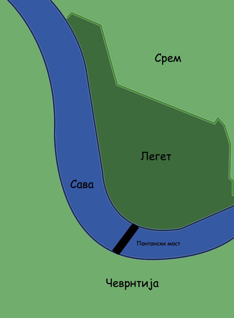 Map of battle of Leget field between Serbian and Austro Hungarian army during WW1